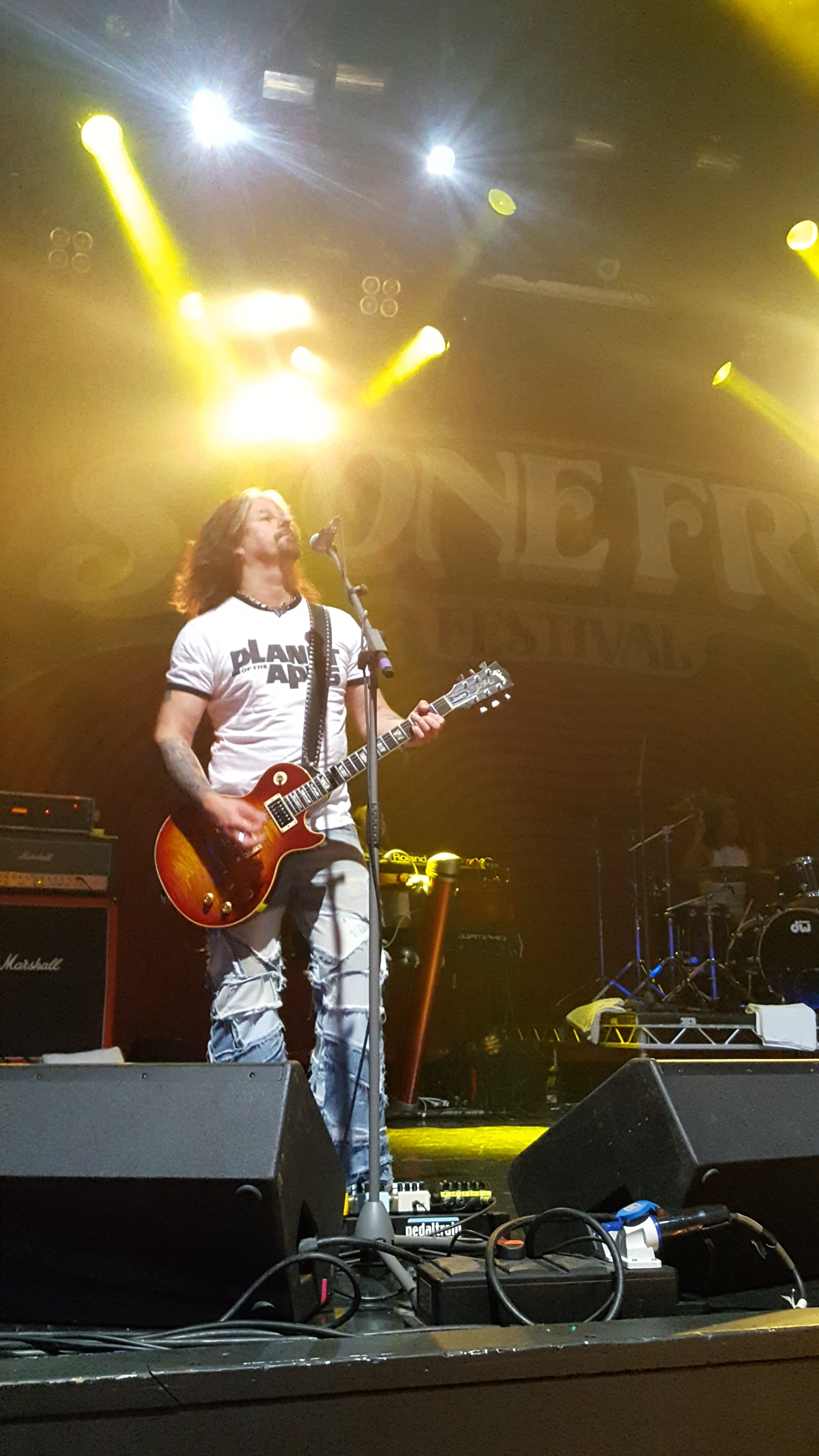 CATS in SPACE - O2 Indigo @ O2 Arena, London UK